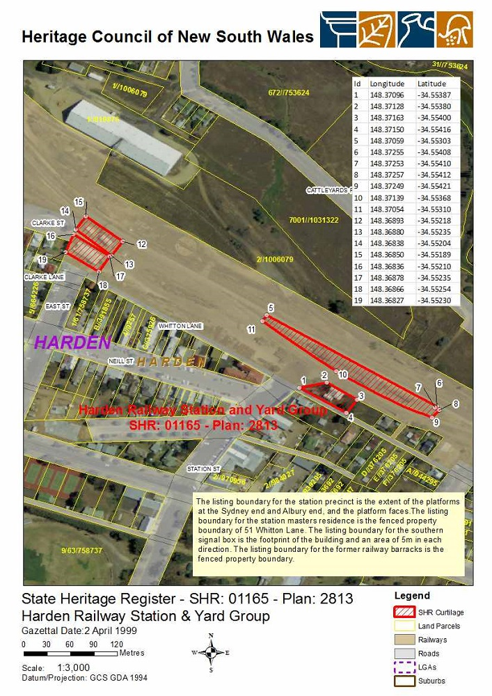 Harden railway station: SHR Plan No 2812